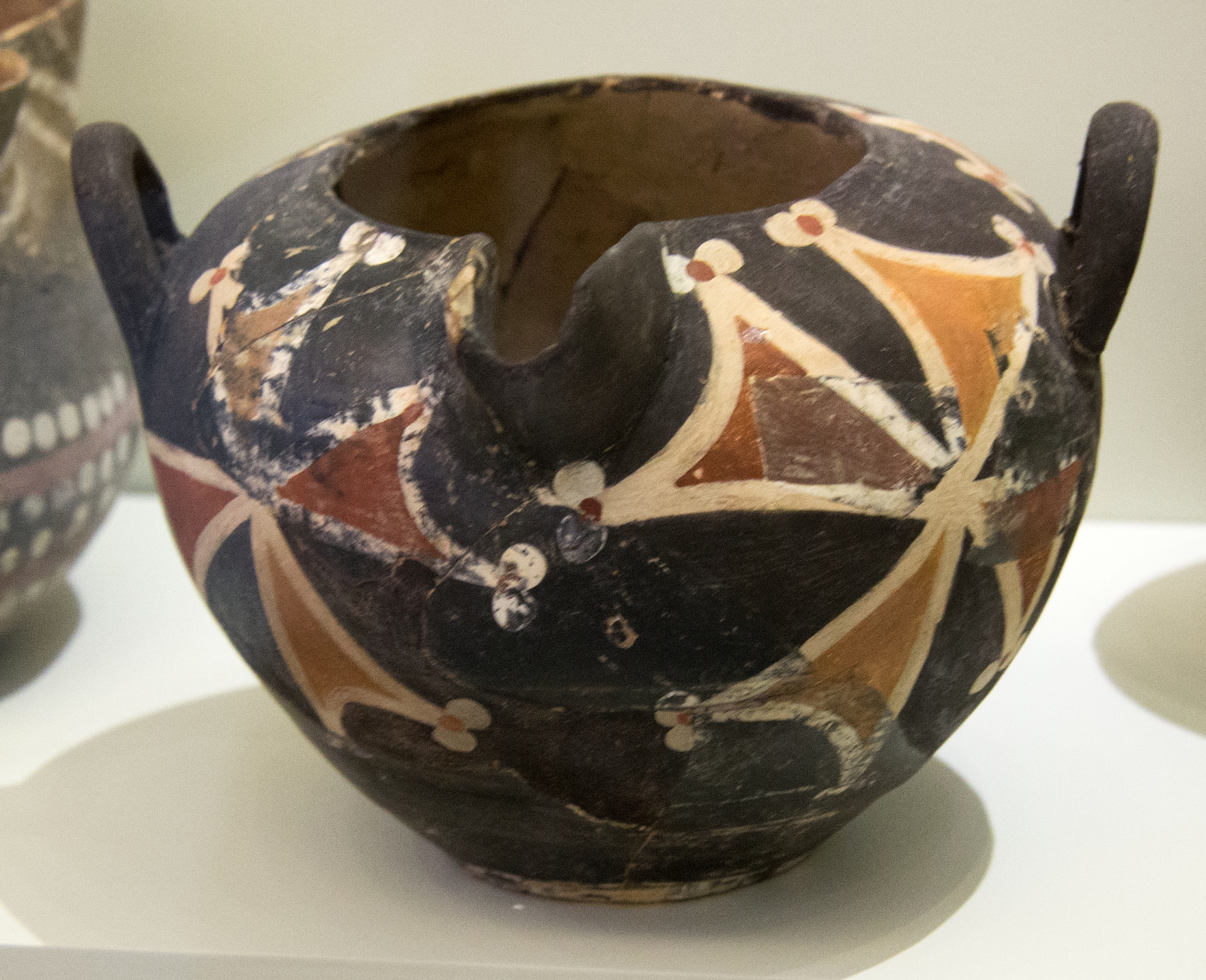 Kamaes ware vessel from the sacred Kamares cave, 1900-1700 BC. Archaeological Museum of Heraklion.